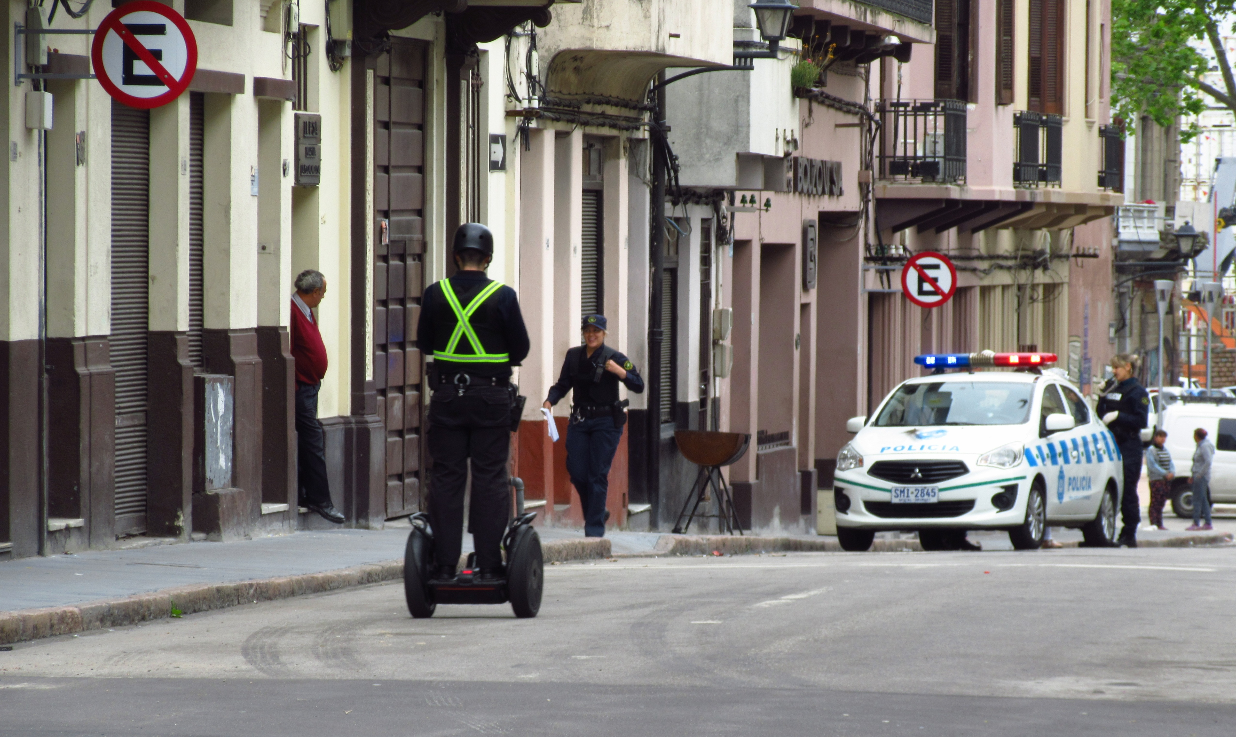 Montevideo